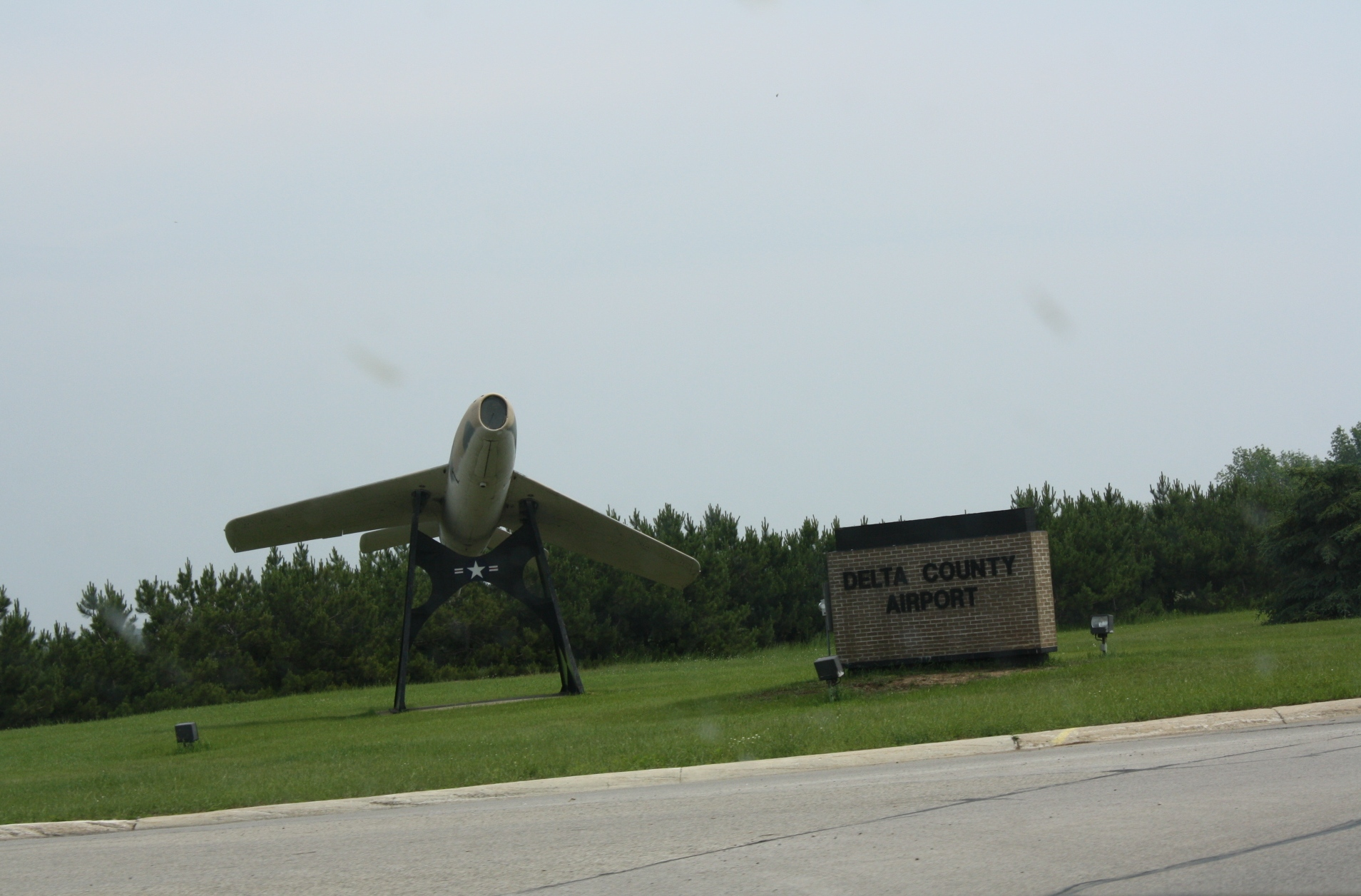 The sign for the Delta County Airport near Escanaba, Michigan along M-35 (Michigan highway).